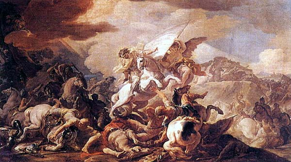 The Legendary Battle of Clavijo in Which Asturian King Ramiro I Defeated the Muslims by Corrado Giaquinto.